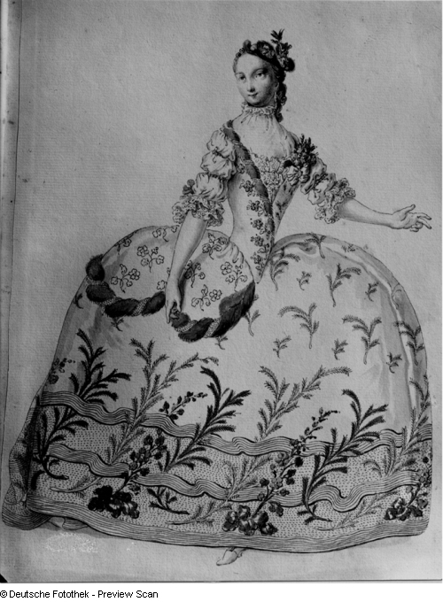 Caterina Pilaja as Argene opera "L'Olimpiade" composed by Johann Adolph Hasse. Premiere: Dresden Court Theatre 16 February 1756. Costume designer: Servandoni Drawing by: F. Ponte From: Vestiarium der Oper "L'Olimpiade". Dresden: Kupferstich-Kabinett Ca 150